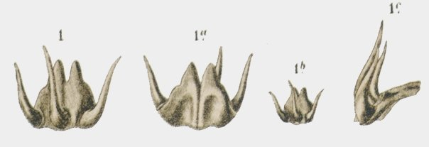 Illustration of Chlamydoselachus tooth by Roberto Lawley.